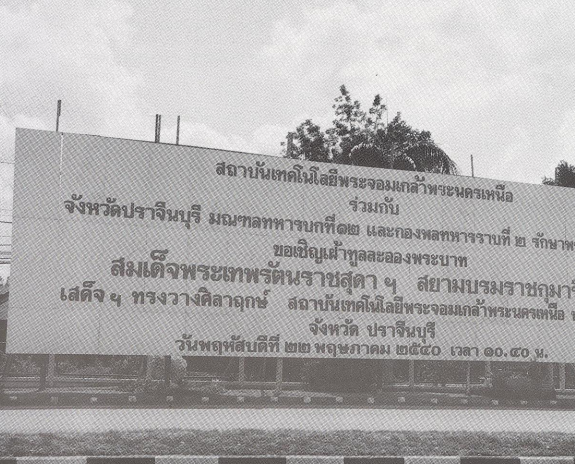 สมเด็จพระเทพรัตนราชสุดา สยามบรมราชกุมารี เสด็จพระราชดำเนินทรงประกอบพิธีวางศิลาฤกษ์ สถาบันเทคโนโลยีพระจอมเกล้าพระนครเหนือ ปราจีนบุรี ณ จังหวัดปราจีนบุรี